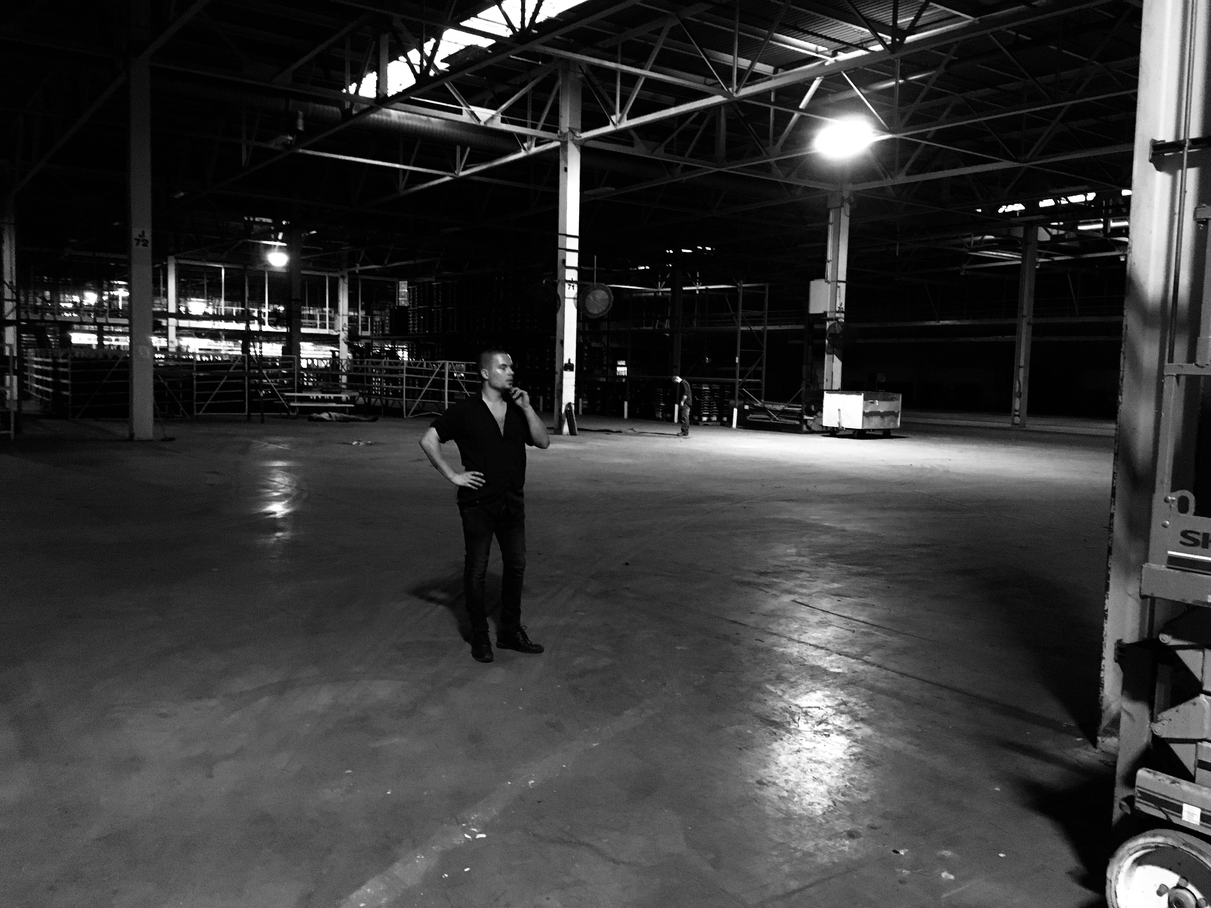 British director producer and writer George Henry Horton on the set of sci fi horror film Project Dorothy in Illinois, starring Tim DeZarn.